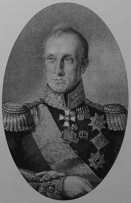 Greig Samuil Alexeevitsch (1827-1887). - 2-x ministr of Russia (1874-1878) & (1878-1880)